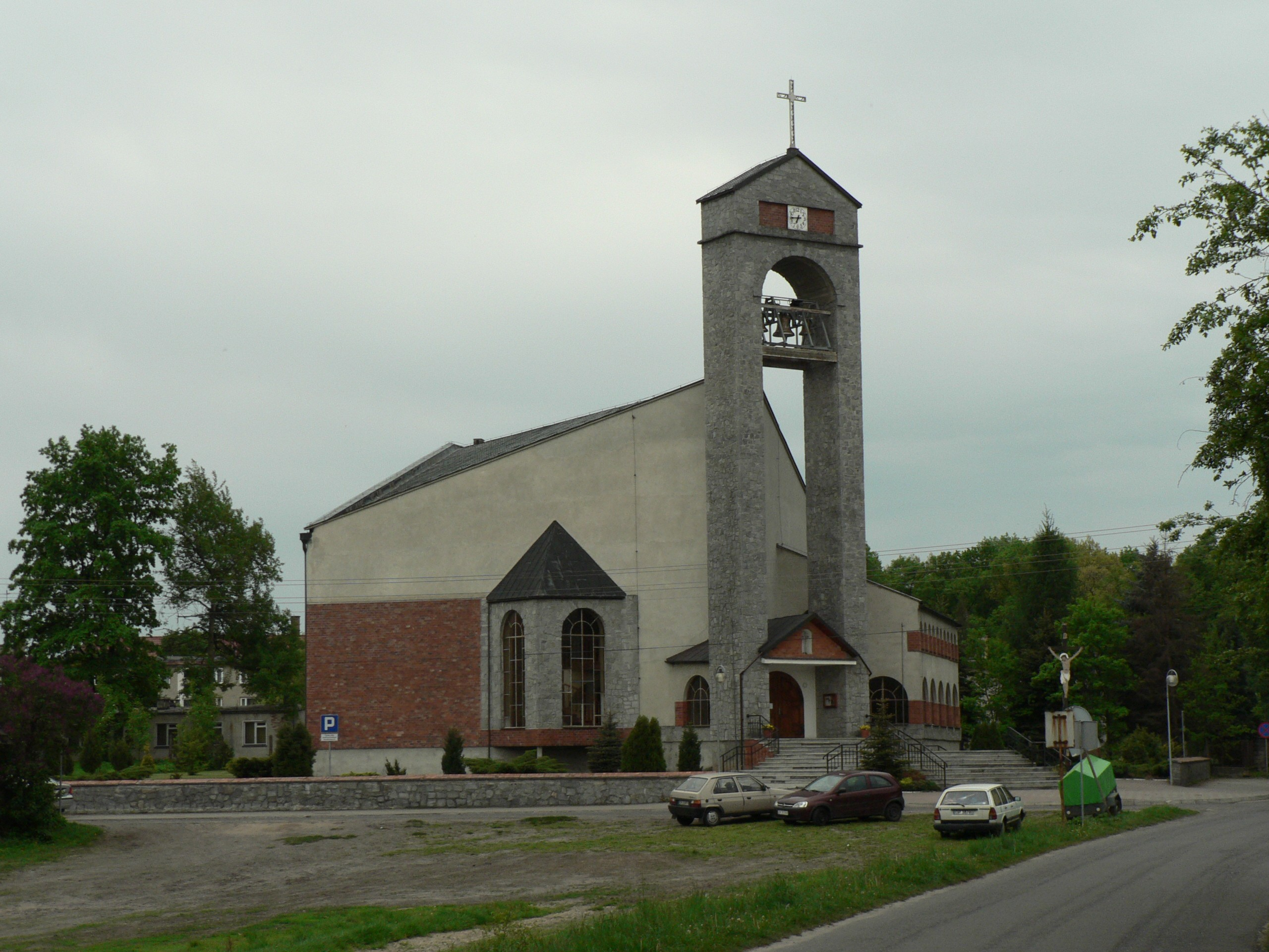 Church of the Immaculate Heart of Mary in Moszna, Poland